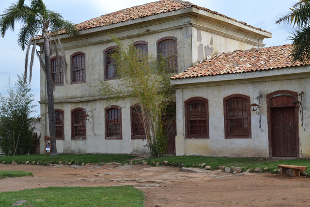 Brazilian movie picture "O Tempo e o Vento" ("The Time and the Wind") setting at Bagé, RS, Brazil, detail